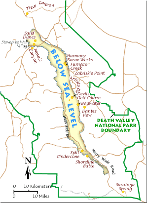 Entire Death Valley National Park area in yellow is below sea level (USGS image)